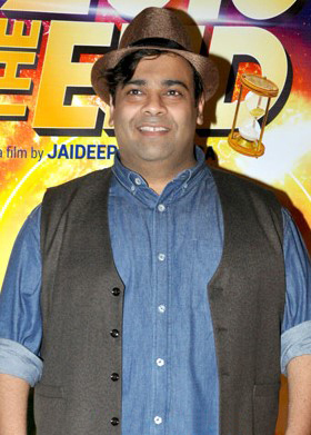 Kiku Sharda at trailer and poster launch of 2016 The End.